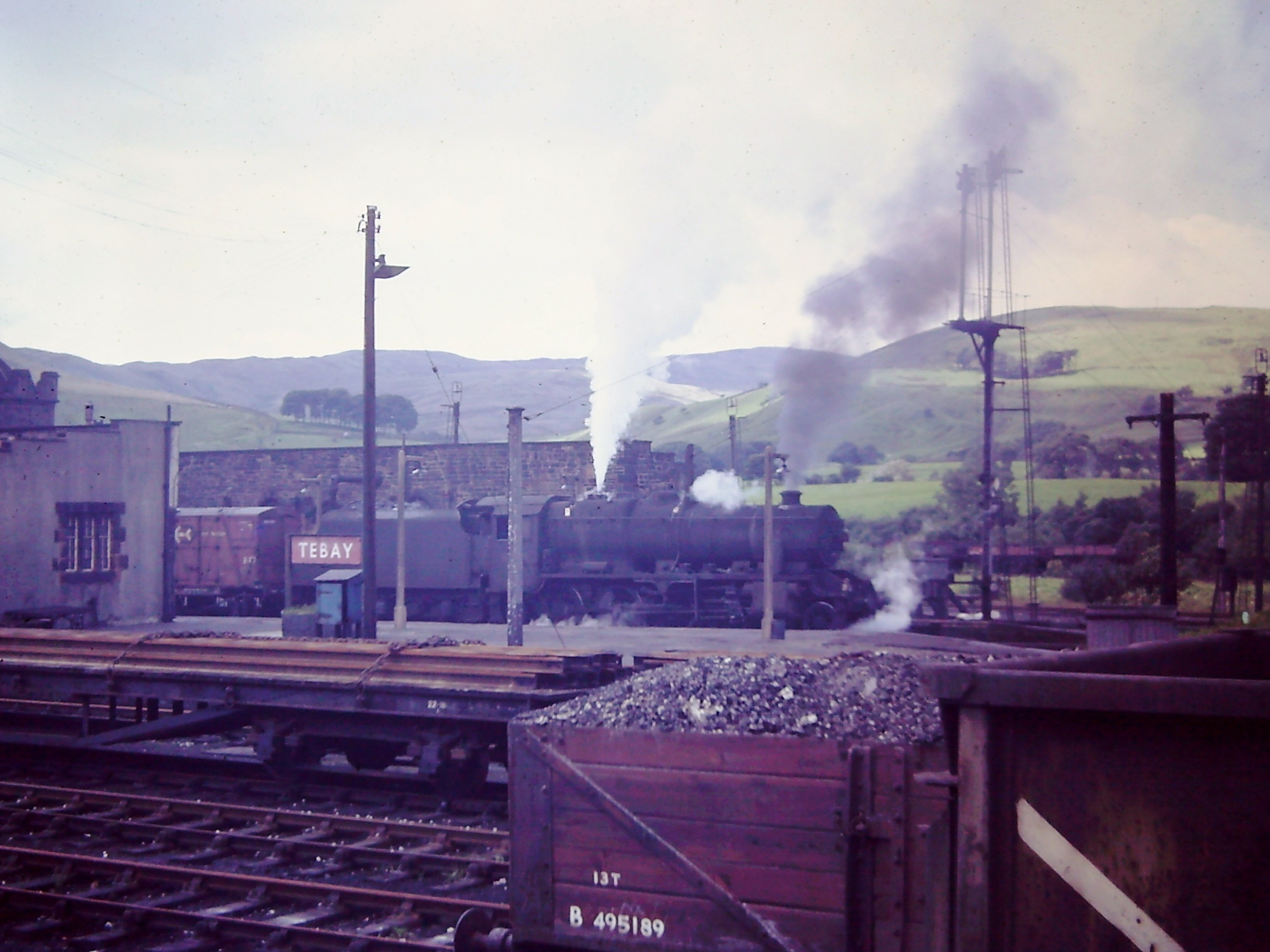 8F Tebay Unidentified 8F - copied from my original slide taken on Kodachrome 25.